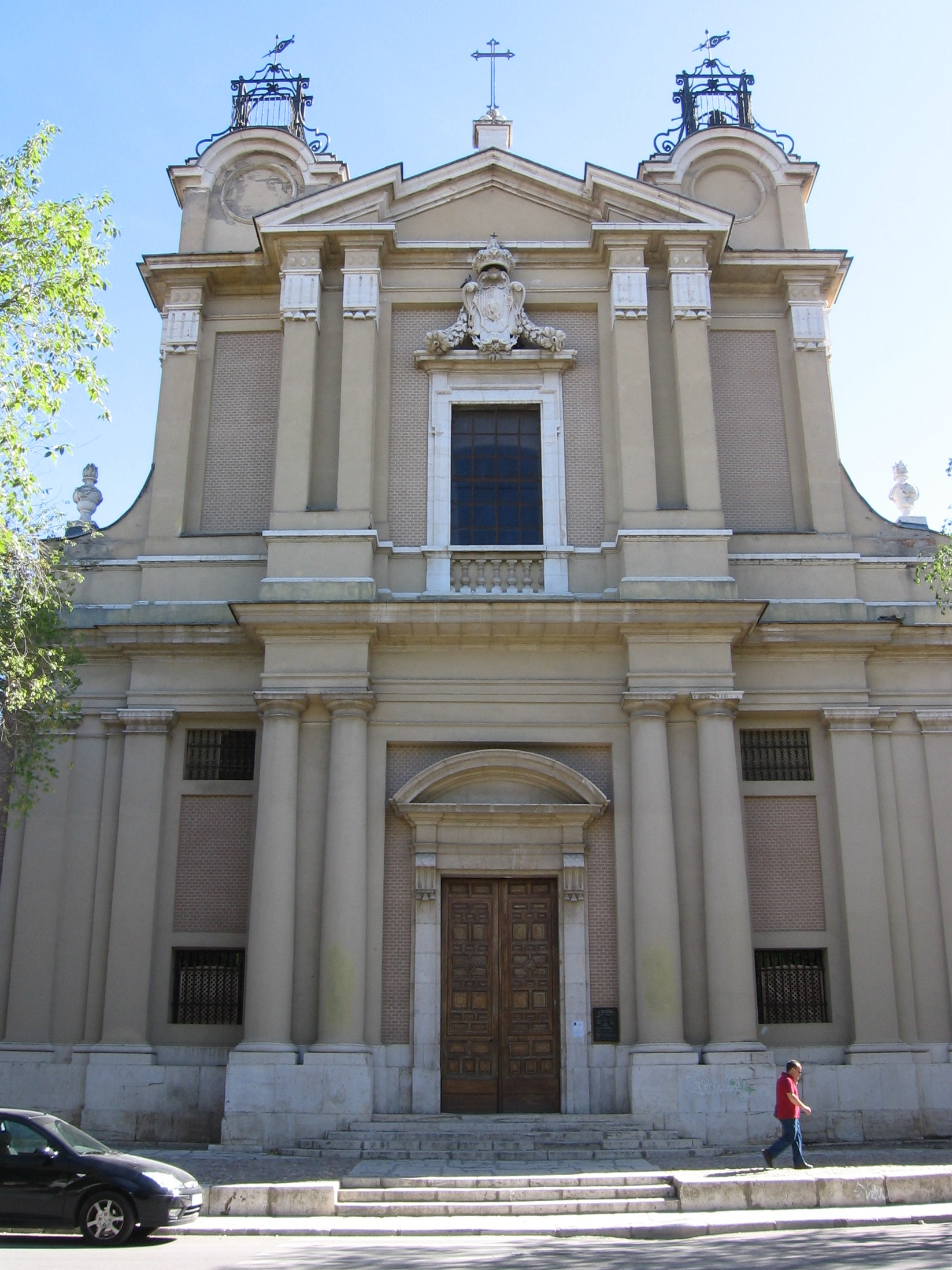 Façade of the Royal Convent of Saint Pascual in Aranjuez (Madrid, Spain)